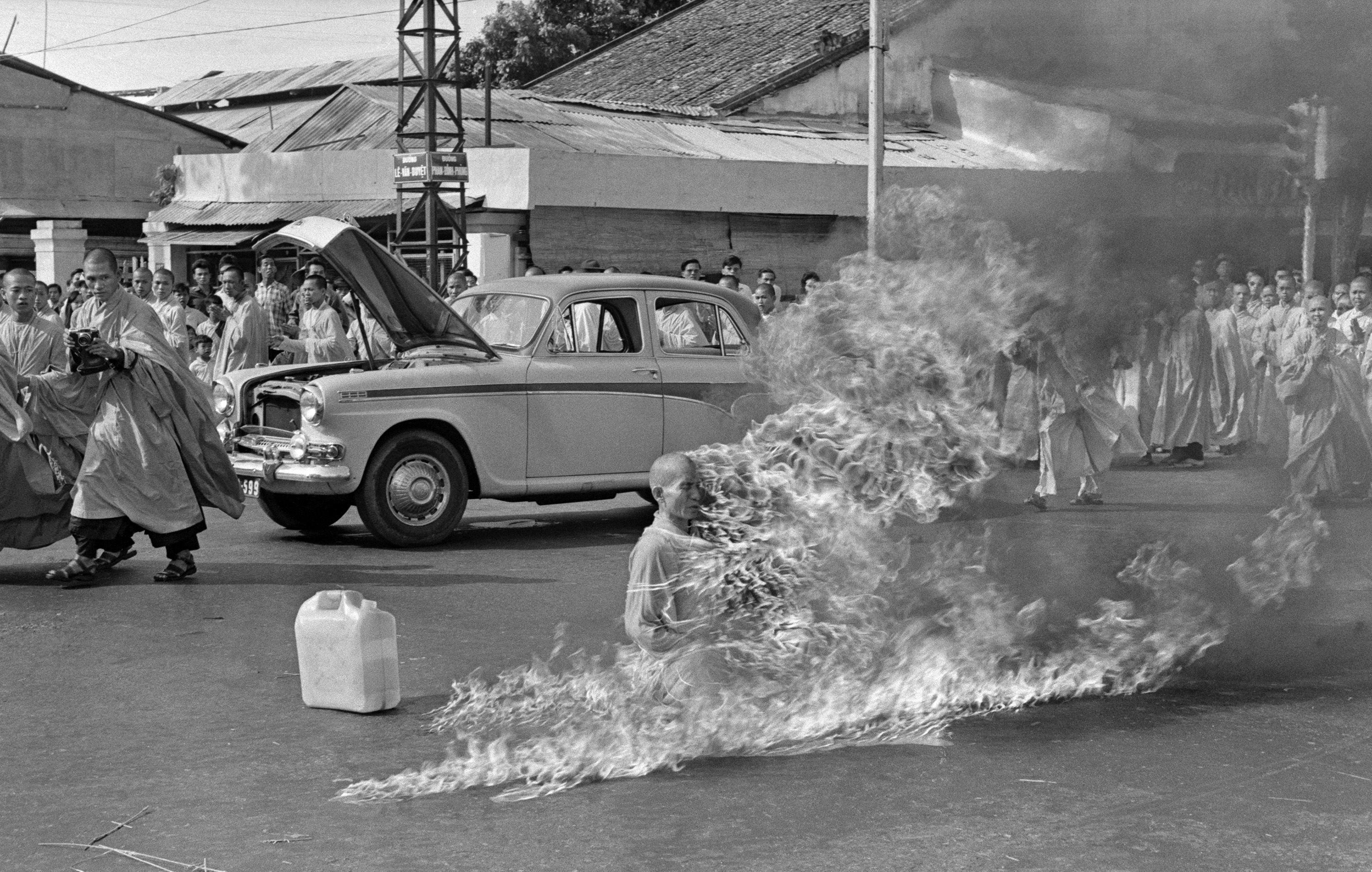 Thích Quảng Đức's self-immolation during the Buddhist crisis in Vietnam. Malcolm Browne won the 1963 World Press Photo of the Year for a similar photo. Malcolm Browne went on to win the 1964 Pulitzer Prize as well.